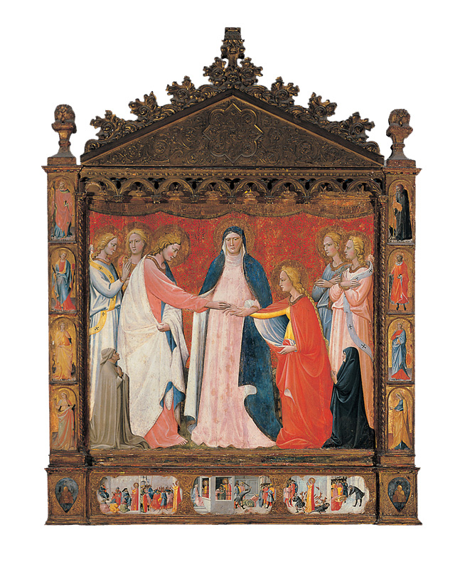 Giovanni dal Ponte : The Mystic Marriage of St Catherine of Alexandria